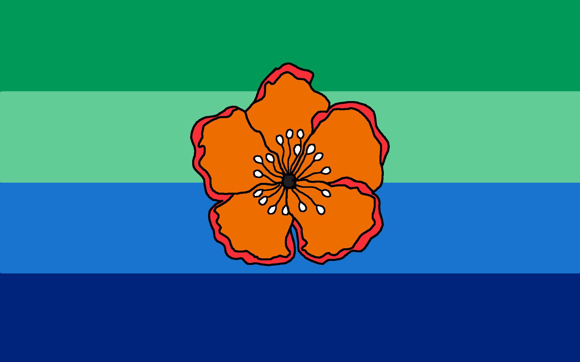 Flag of Angaur State Palau.